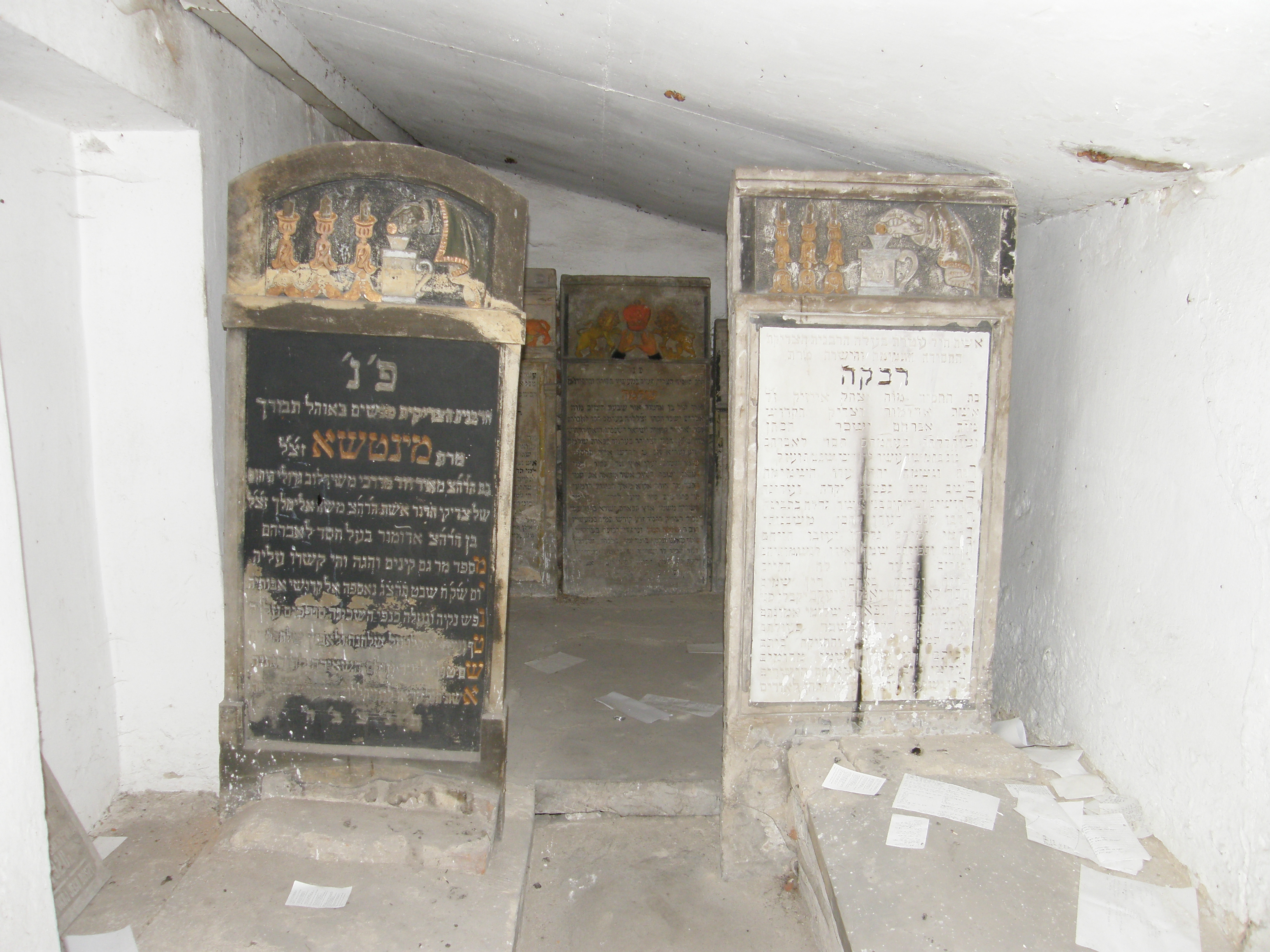 Ohel tzaddikim Rabinowiczów in Radomsko